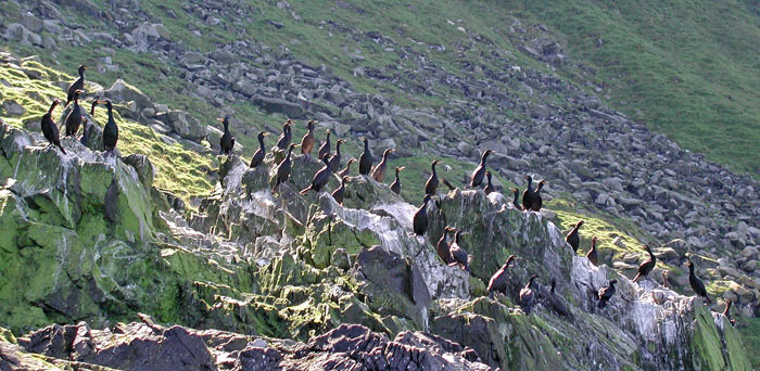 Common Shag (Phalacrocorax aristotelis) at the norwegian bird-island Runde